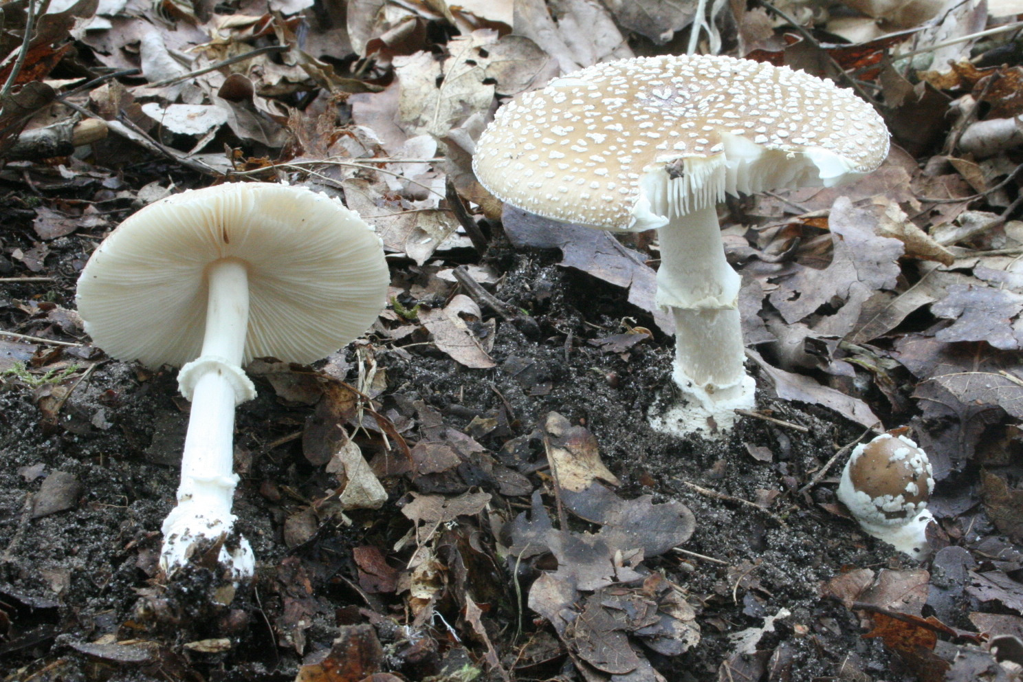 Amanita pantherina in a wood near Rambouillet, France.